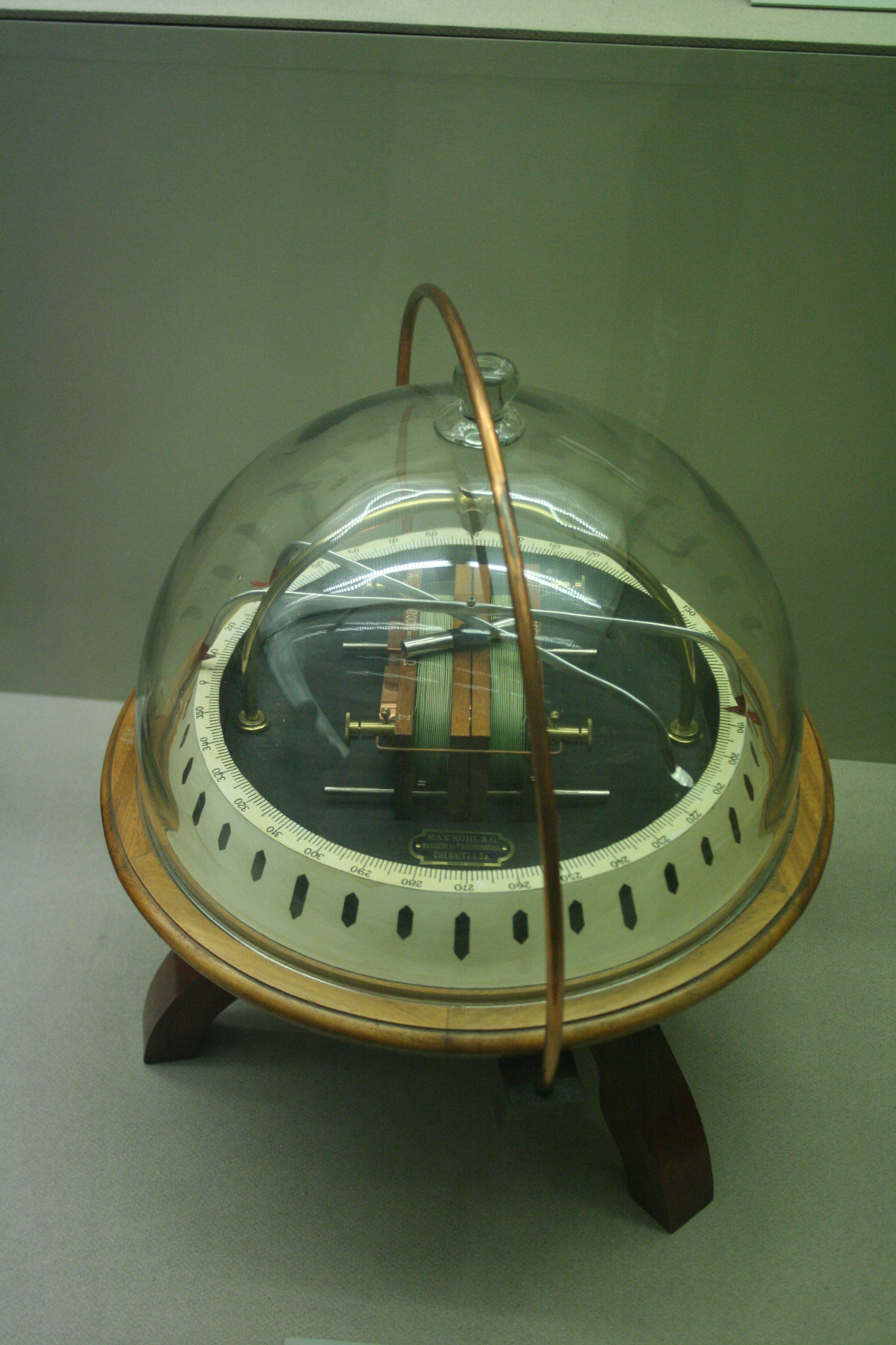 Galvanometer Max Kohl A.G. 1907-1920